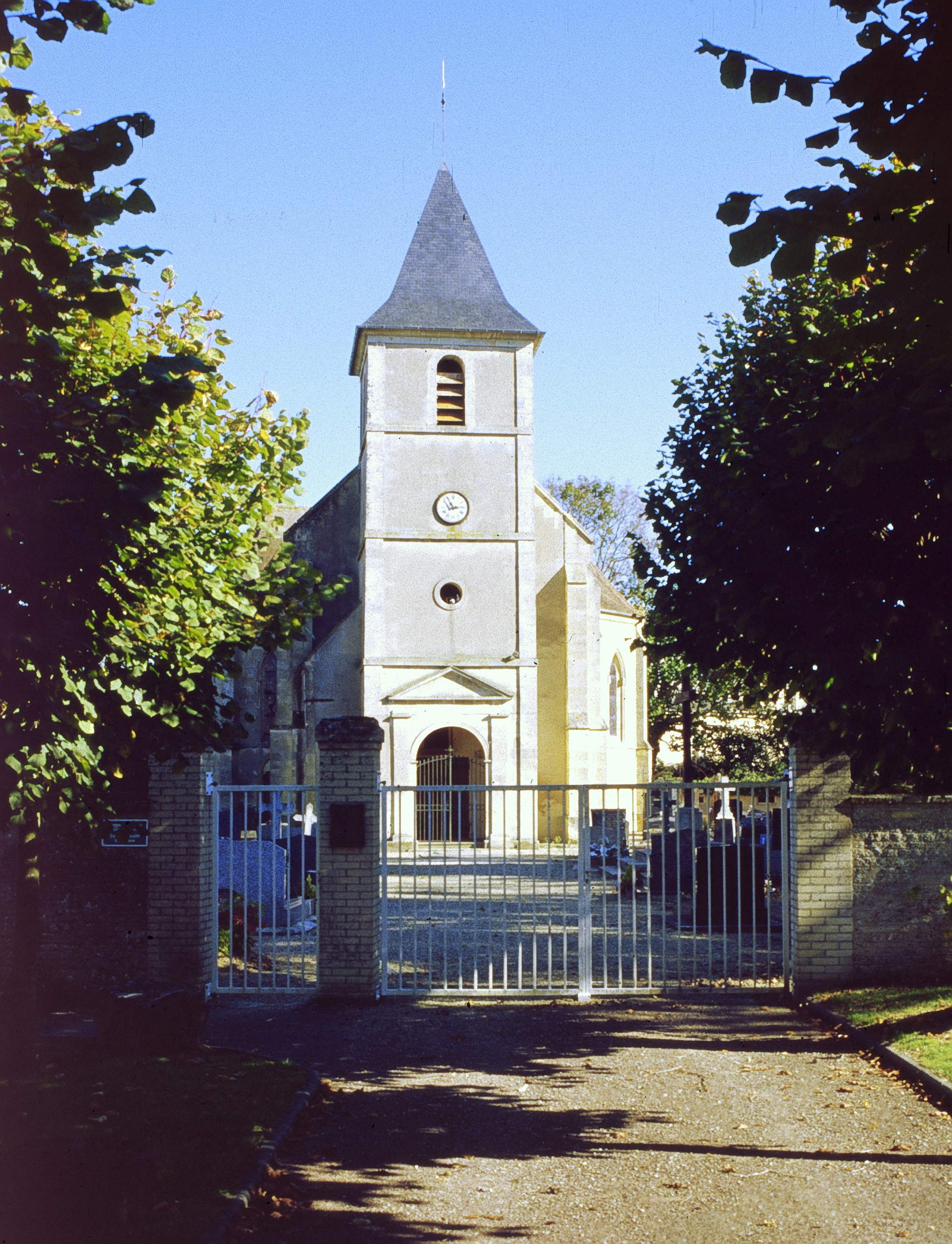 Saint Hilaire church in Bavent (14) France